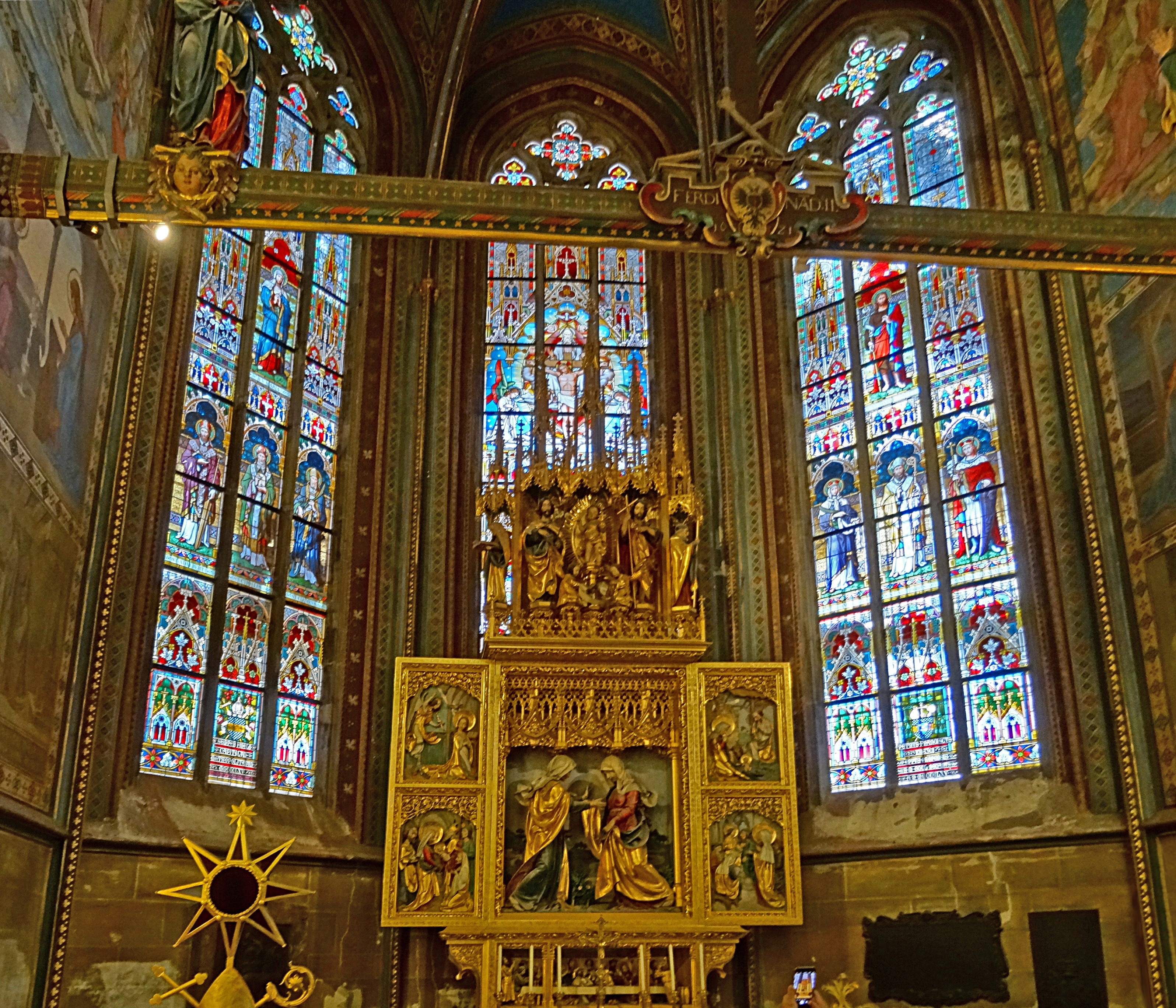 Stained glass window in the Chapel of Virgin Mary of the Prague St. Vitus Cathedral